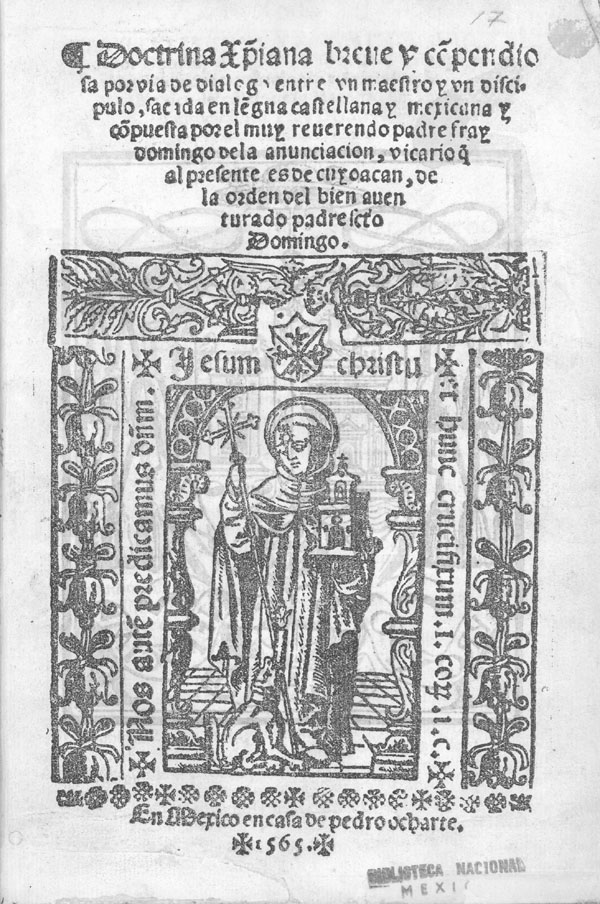 Title page of Doctrina cristiana breve y compendiosa por vía de diálogo entre un maestro y un discípulo.